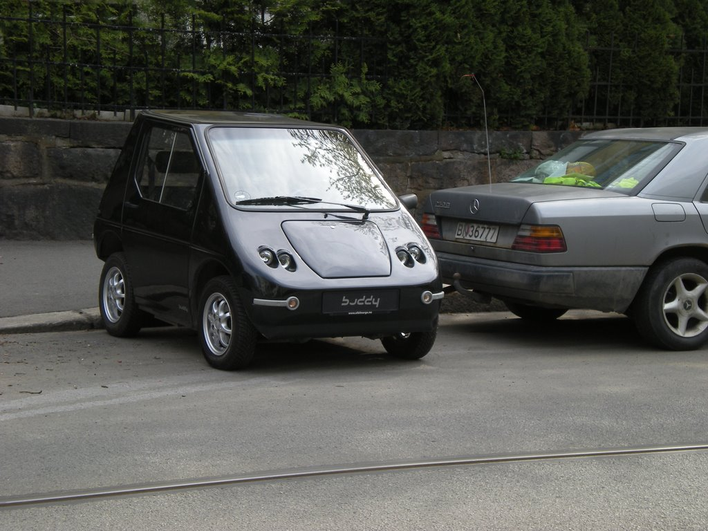 A Buddy electric car in Oslo, Norway.